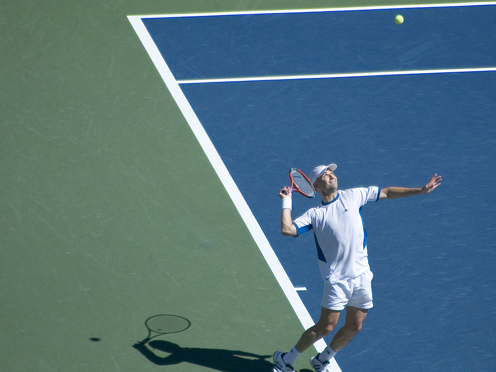 tighter crops of pics already posted